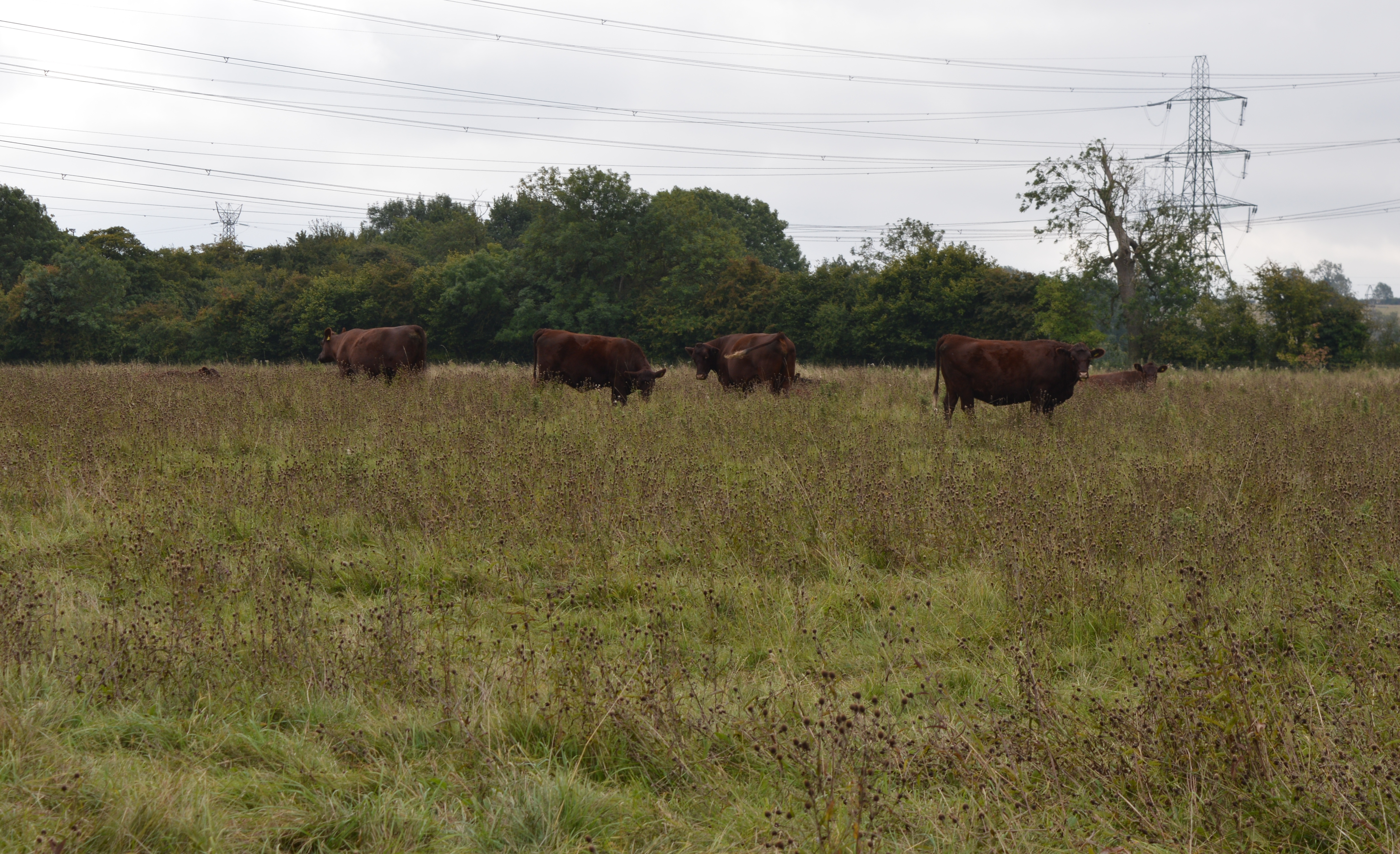 Fancott Woods and Meadows, a Site of Special Scientific Interest managed by the Wildlife Trust for Bedfordshire, Cambridgeshire and Northamptonshire in Toddington, Bedfordshire